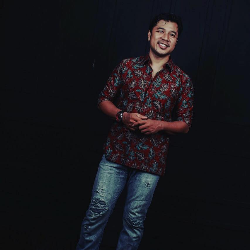 foto benny arnas 2